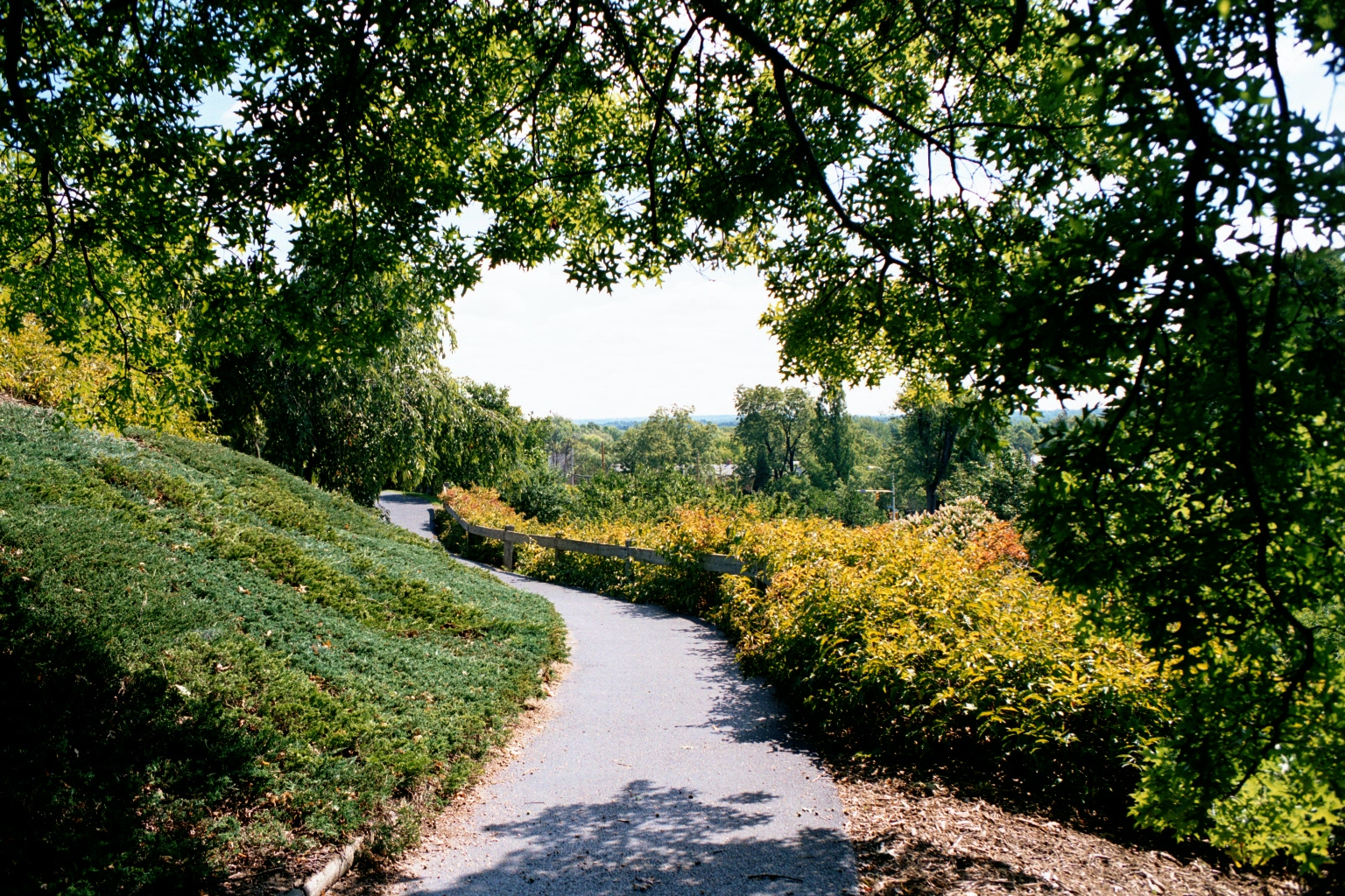 Rochester, New York View within the Highland Park